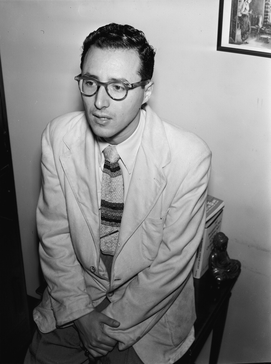 Pete Rugolo, ca. Dec. 1946 (Photograph by William P. Gottlieb)